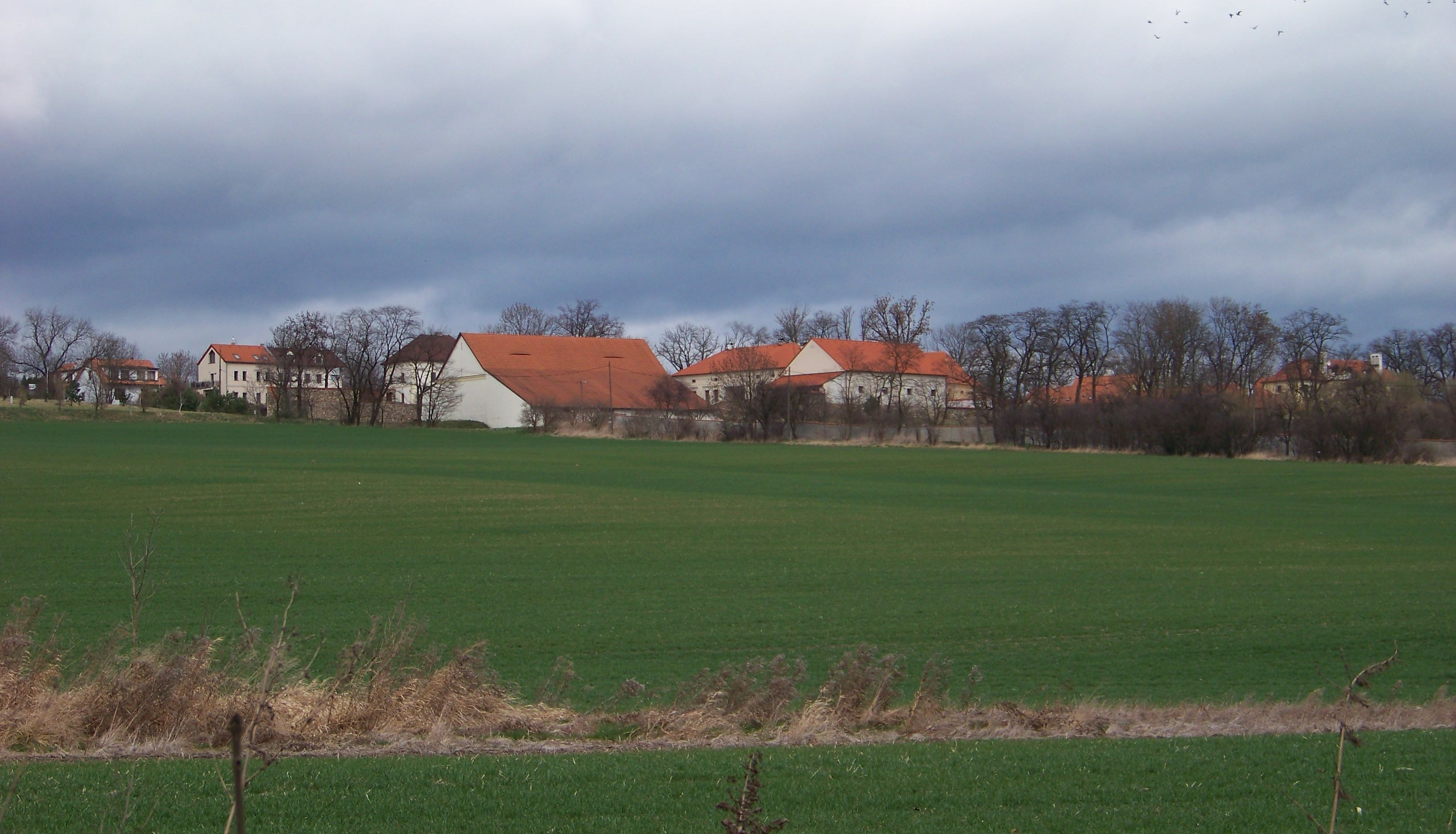 Prague-Třebonice, Czech Republic. Chaby.